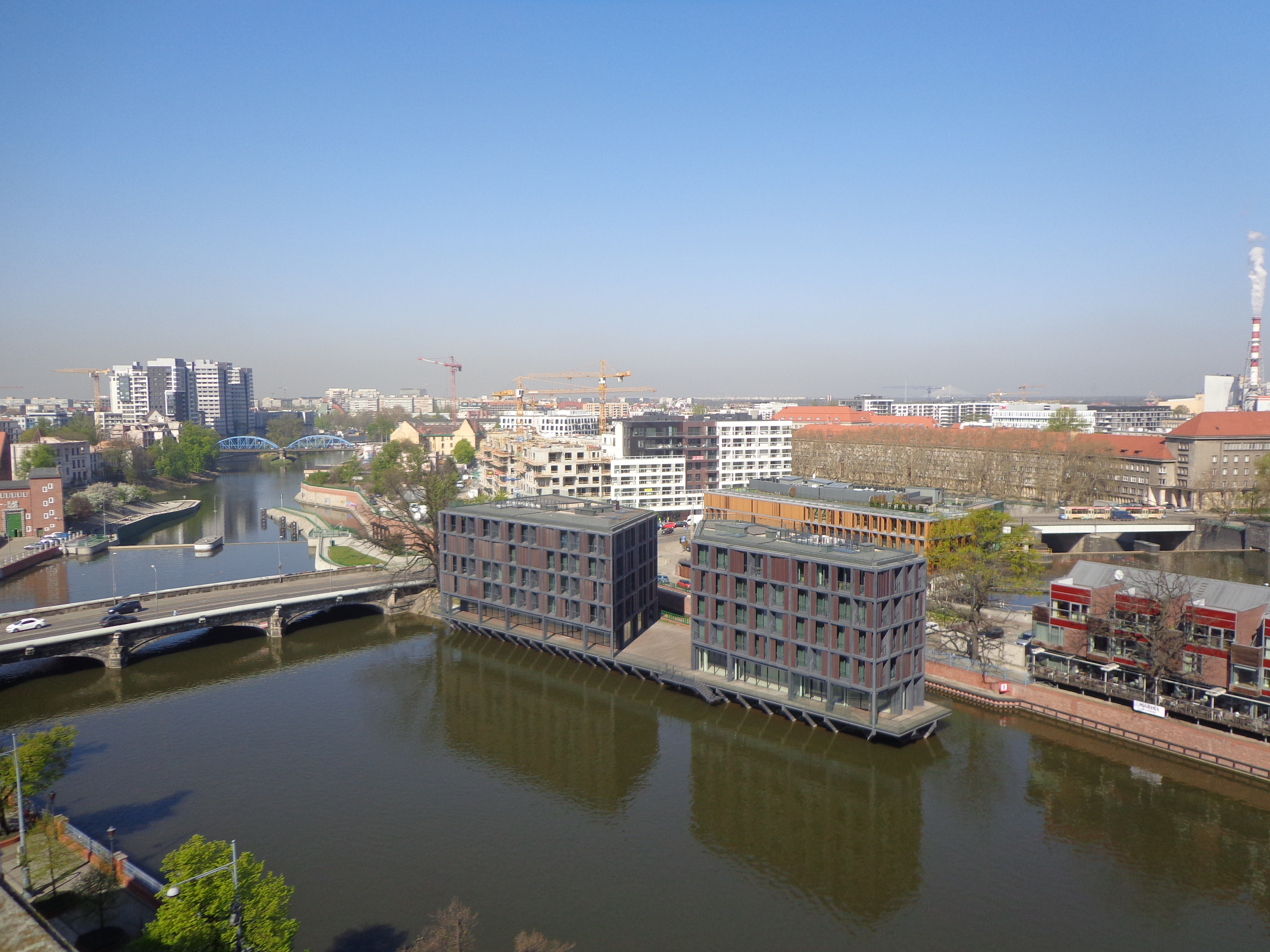 Germany's loss was Poland's gain.